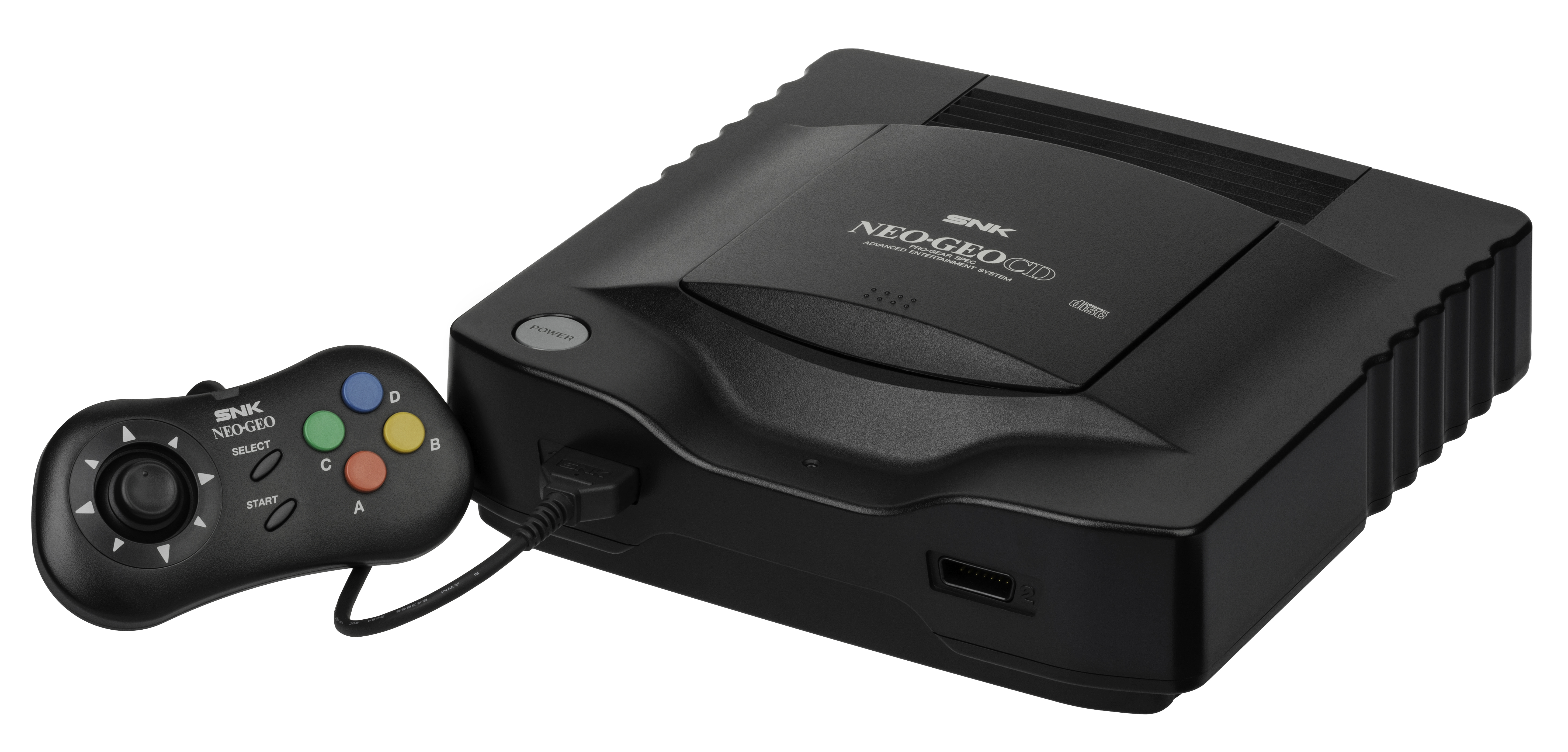 The Neo Geo CD, a video game console released by SNK in Japan in 1994. This is the top loader model, the most common version and the only one that saw a worldwide release. The Neo Geo CD was a conversion of the original Neo Geo AES hardware into a system with cheaper, more accessible media. The original AES used large cartridges that cost hundreds of dollars each, whereas this model used common CDs that cost pennies to produce. The system also included a more standard gamepad for the pack-in controller.